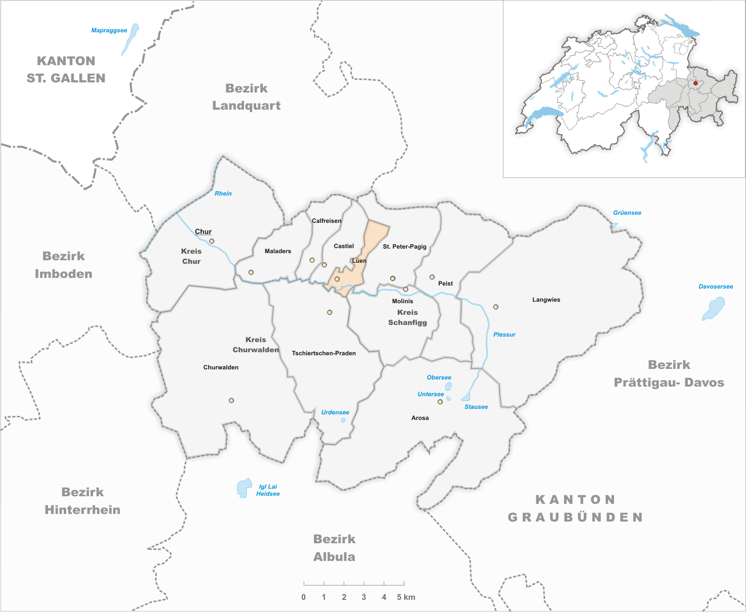 Municipality Lüen